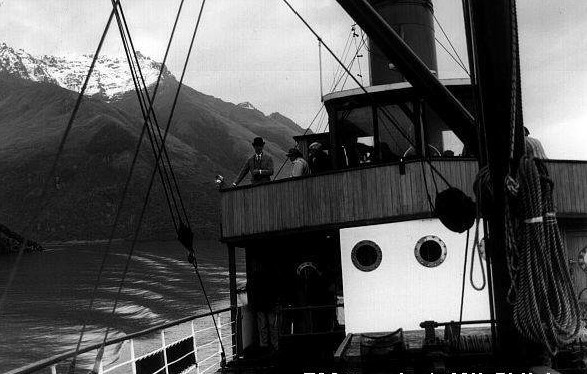 Sailing to Kingston on the Birthday Run just near Cecil Peak Station